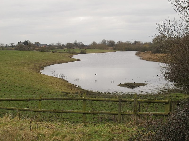 Crabmill Flash I did not think I had visited this square before but it turns out I had, nearly ten years earlier: SJ7160 : Farm machinery. See also SJ7160 : Sandbach Flashes: Crabmill Flash for the flash. Cheshire flashes The historic salt industry in south Cheshire began as the small-scale exploitation of natural brine springs and eventually led to industrial scale brine pumping. The paractice was particularly common from the 1920s to 1970s in the area around Middlewich and Sandbach, where brine was pumped out of disused salt mine workings. This led to the eventual collapse of the large underground chambers. The resulting subsidence at ground level formed water-filled depressions known as "flashes", which attract wading birds more often found in coastal saltmarshes and the like. The phenomenon (without the saline water) is also found in coal mining areas: see the similar Shared Description for Wigan Flashes. For a fuller explanation and maps, see LinkExternal link